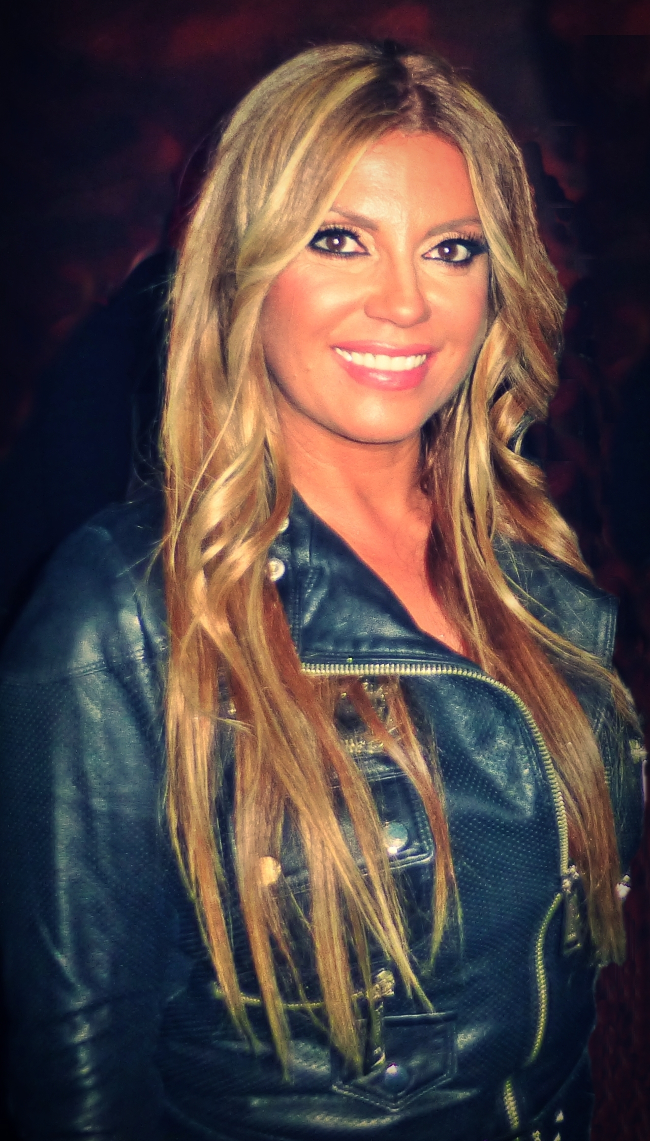 Bosnian Serb singer Indira Radić in 2012.